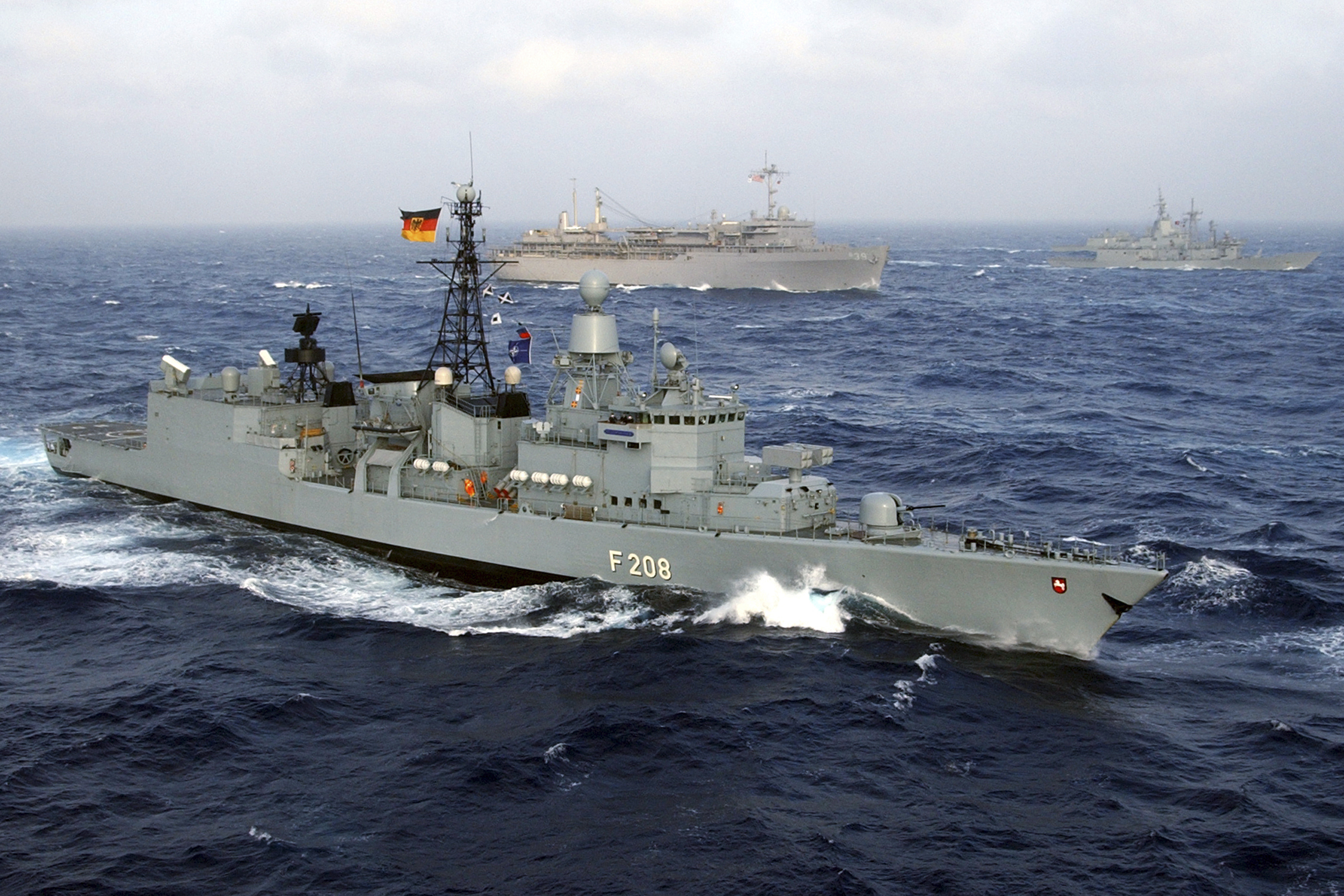 The German frigate Niedersachsen (F208), the U.S. Navy submarine tender USS Emory S. Land (AS-39), the Turkish frigate TCG Gediz (F495), and the Spanish frigate Alvaro De Bazan (F101) steam together through the Atlantic Ocean while participating in exercise "Majestic Eagle 2004". "Majestic Eagle" was a multinational exercise being conducted off the coast of Morocco. The exercise demonstrated the combined force capabilities and quick response times of the participating naval, air, undersea and surface warfare groups. Countries involved in the NATO led exercise included the United Kingdom, Germany, Morocco, France, Italy, Portugal, Spain, and Turkey.